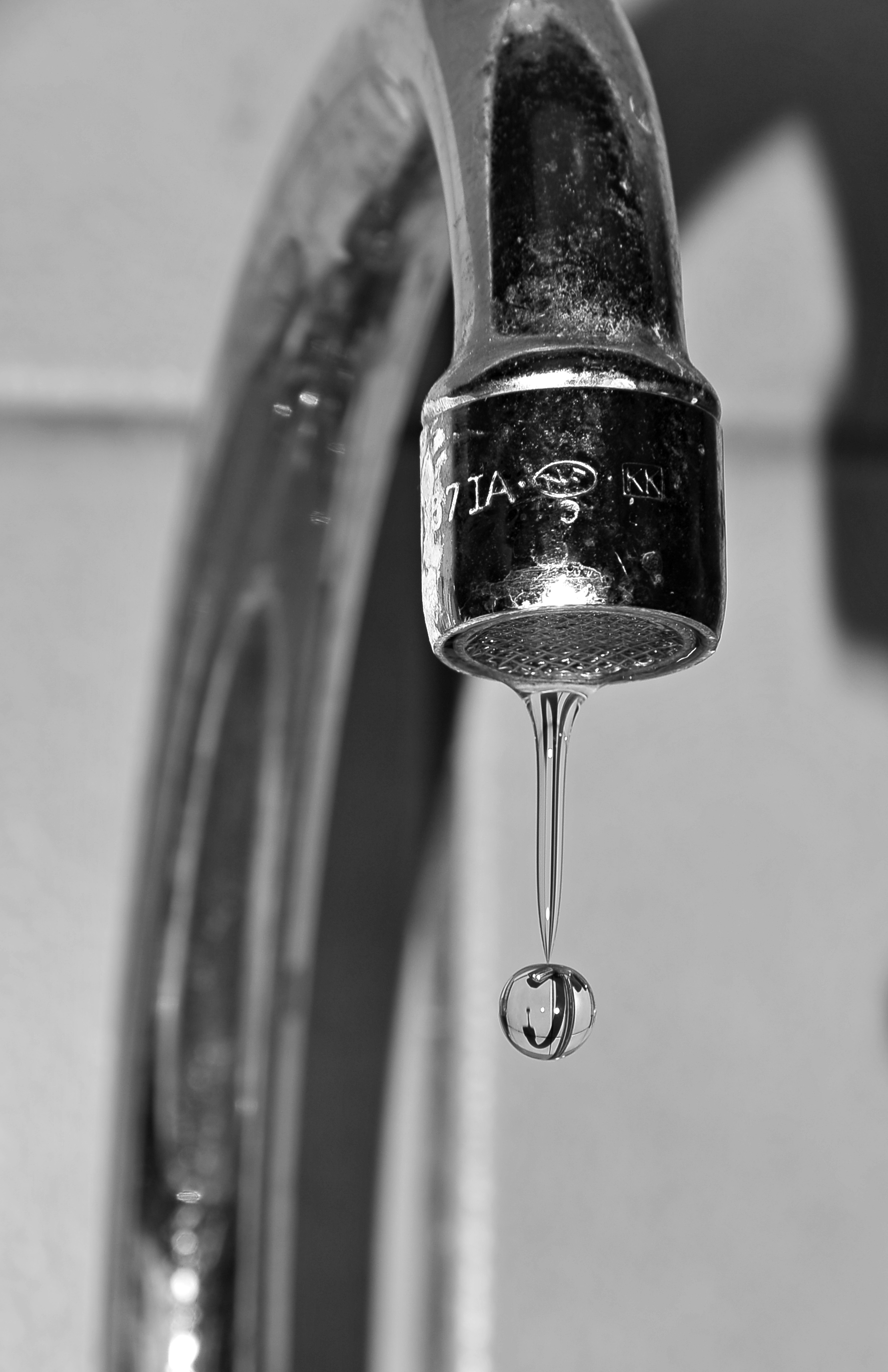 dripping faucet